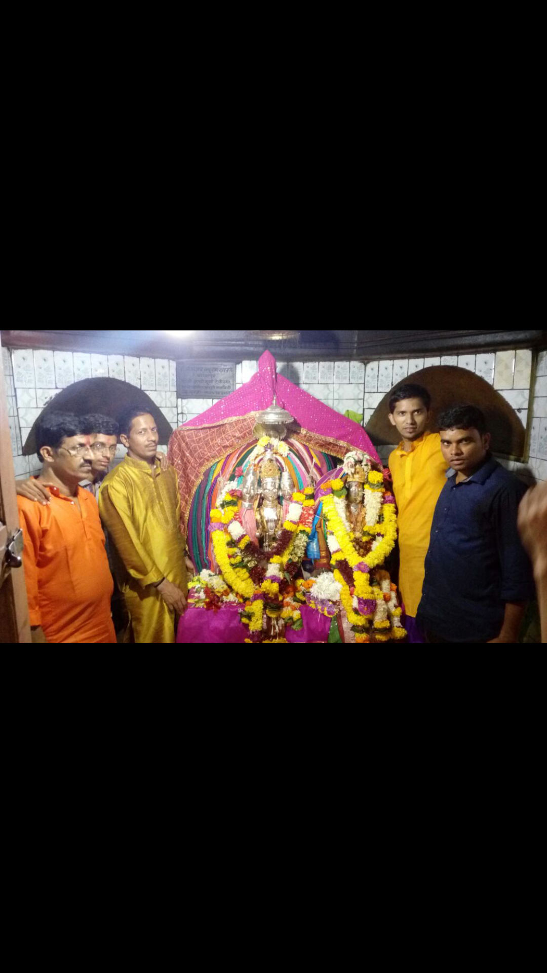 devihasol